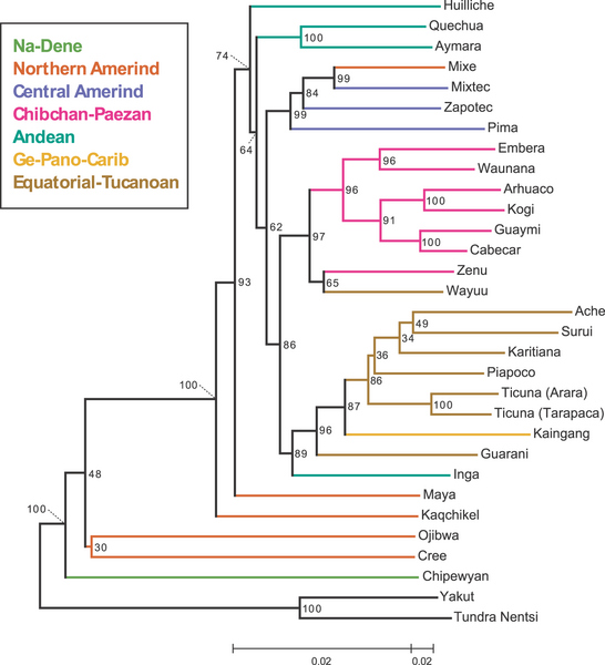 Native American autosomal genetic tree. Each language stock is given a color, and if all populations subtended by an edge belong to the same language stock, the clade is given the color that corresponds to that stock. Branch lengths are scaled according to genetic distance, but for ease of visualization, a different scale is used on the left and right sides of the middle tick mark at the bottom of the figure. The tree was rooted along the branch connecting the Siberian populations and the Native American populations, and for convenience, the forced bootstrap score of 100% for this rooting is indicated twice. In the neighbor-joining tree, a reasonably well-supported cluster (86%) includes all non-Andean South American populations, together with the Andean-speaking Inga population from southern Colombia. Within this South American cluster, strong support exists for separate clustering of Chibchan–Paezan (97%) and Equatorial–Tucanoan (96%) speakers (except for the inclusion of the Equatorial–Tucanoan Wayuu population with its Chibchan–Paezan geographic neighbors, and the inclusion of Kaingang, the single Ge–Pano–Carib population, with its Equatorial–Tucanoan geographic neighbors). Within the Chibchan–Paezan and Equatorial–Tucanoan subclusters several subgroups have strong support, including Embera and Waunana (96%), Arhuaco and Kogi (100%), Cabecar and Guaymi (100%), and the two Ticuna groups (100%). When the tree-based clustering is repeated with alternate genetic distance measures, despite the high Mantel correlation coefficients between distance matrices (0.98, 0.98, and 0.99 for comparisons of the Nei and Reynolds matrices, the Nei and chord matrices, and the Reynolds and chord matrices, respectively), higher-level groupings tend to differ slightly or to have reduced bootstrap support.